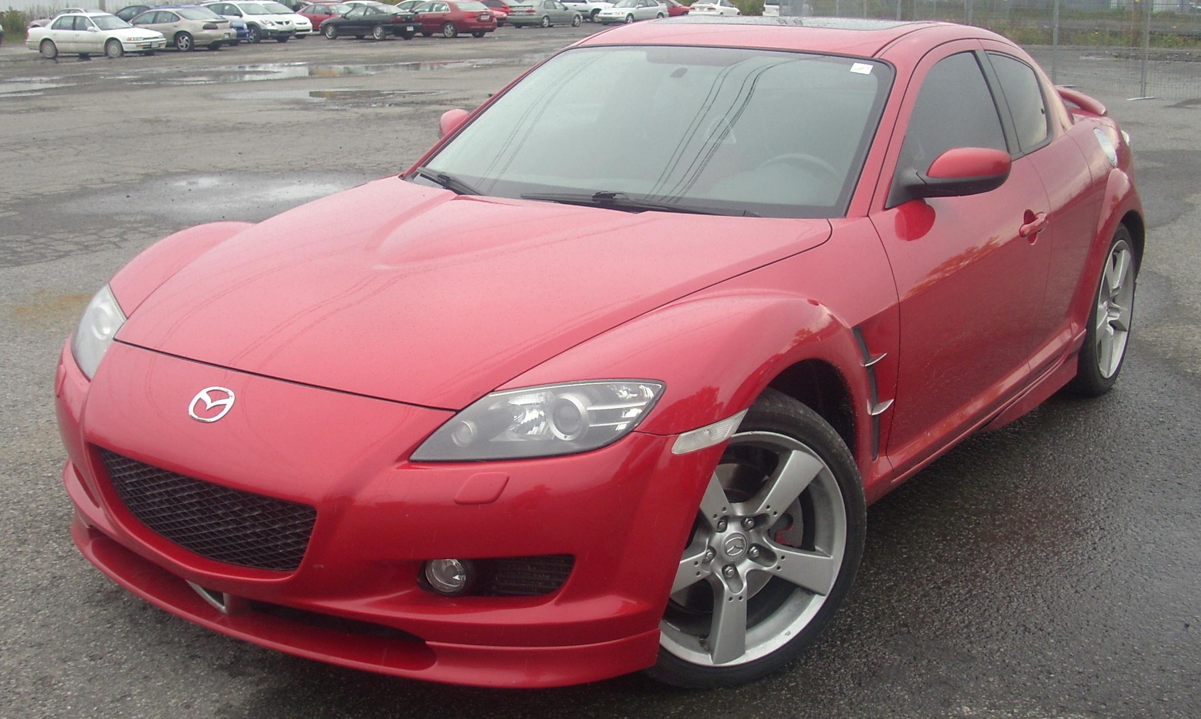 2004-2008 Mazda RX-8 photographed in Montreal, Quebec, Canada.